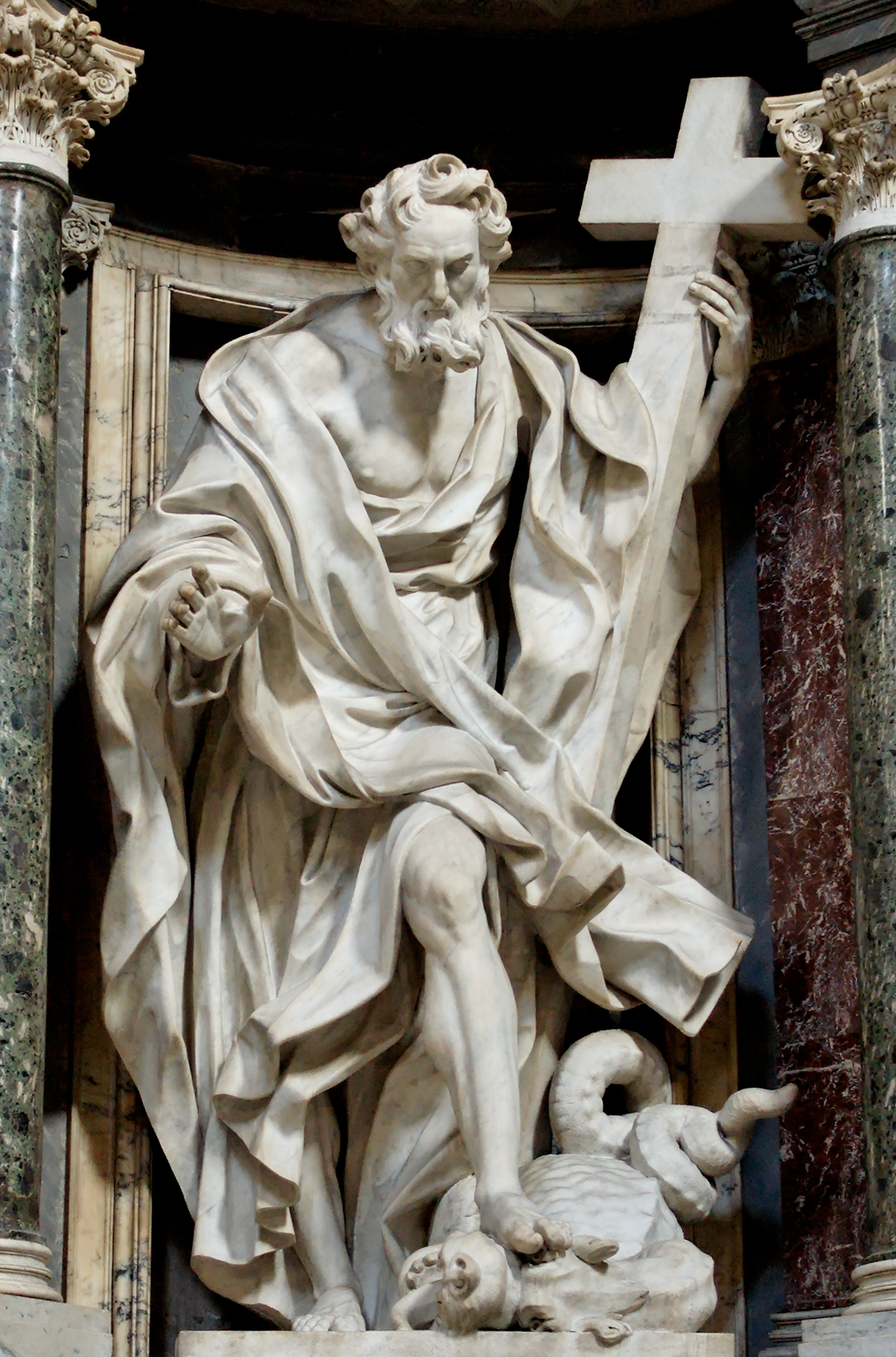 St. Philip by Giuseppe Mazzuoli. Nave of the Basilica of St. John Lateran (Rome).